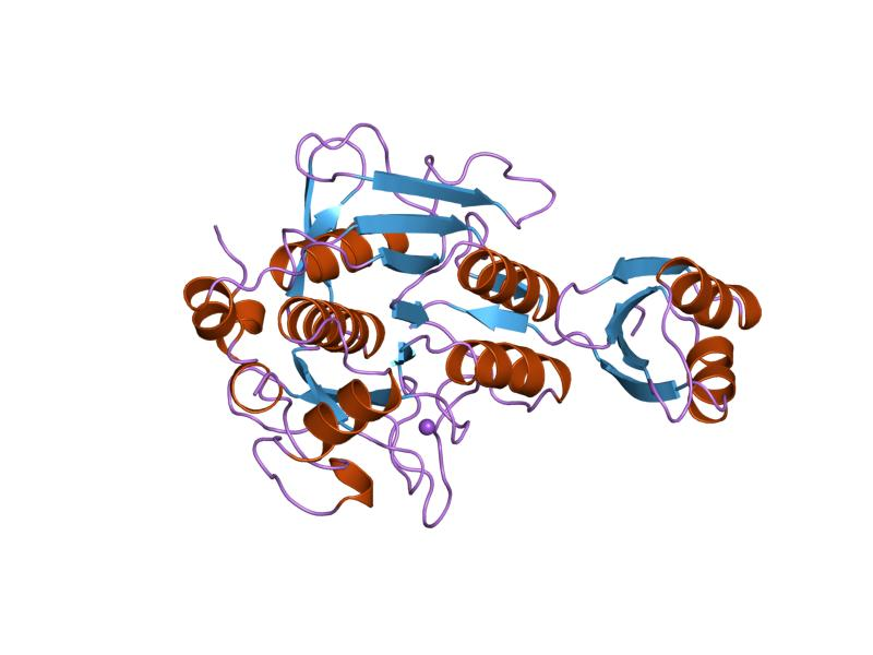 Cartoon representation of the molecular structure of protein registered with 1spb code.